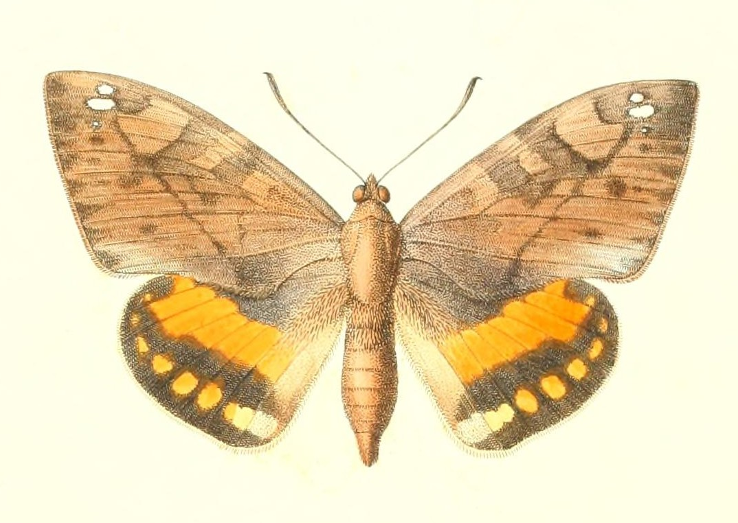 Castnia inca = Athis inca